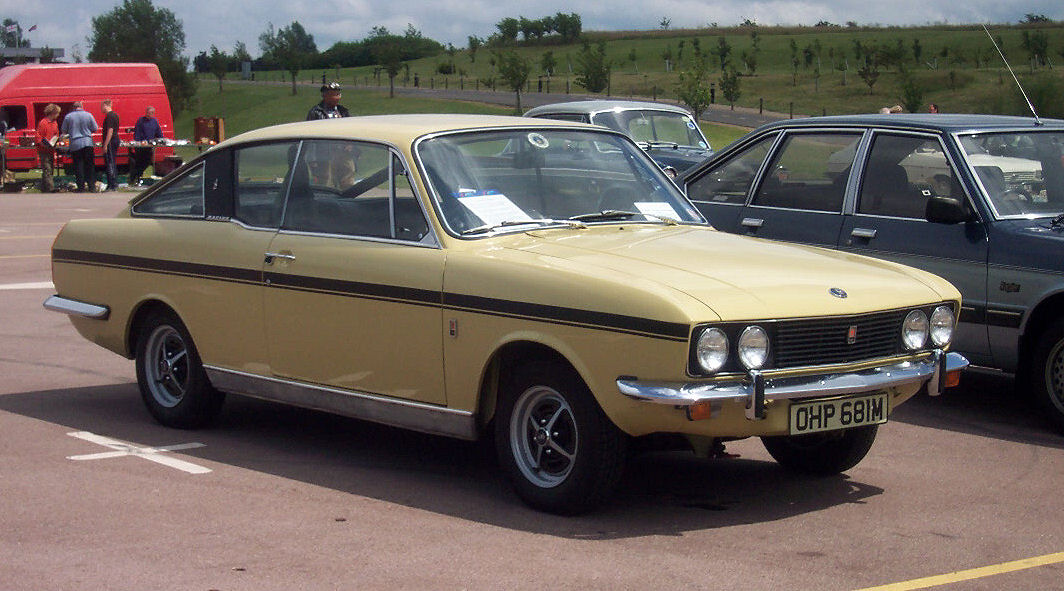 Summary Sunbeam Rapier H120 'Fastback' Coupe. Picture by David Parrott.